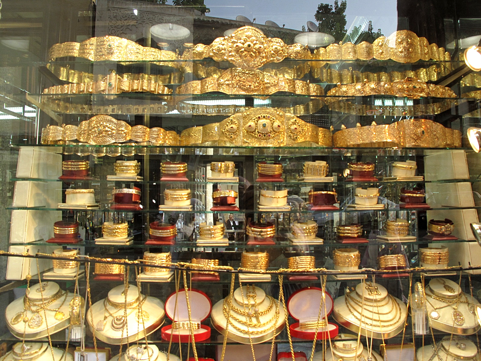 Window display in gold retail shop in Marakesh, Morocco